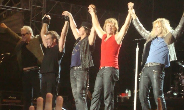 Bon Jovi in 2010.